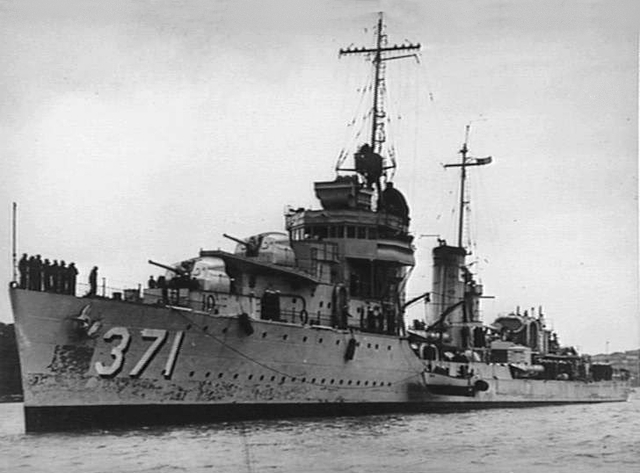 The U.S. Navy destroyer USS Conyngham (DD-371) at Sydney, Australia, in 1941.